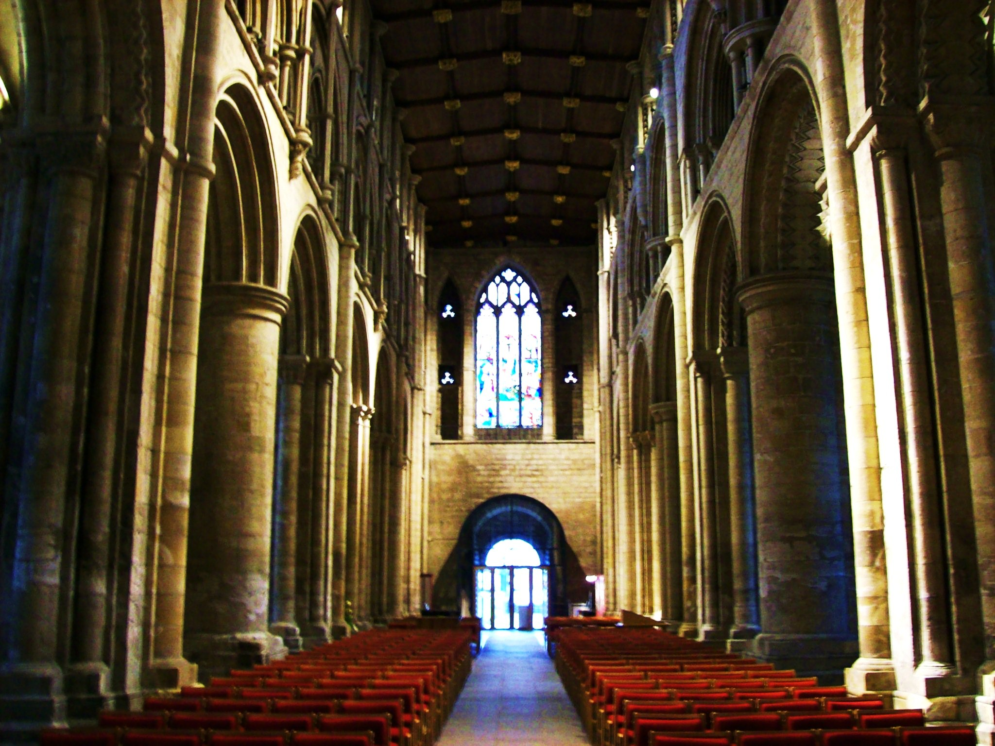 Selby Abbey, the nave looking west